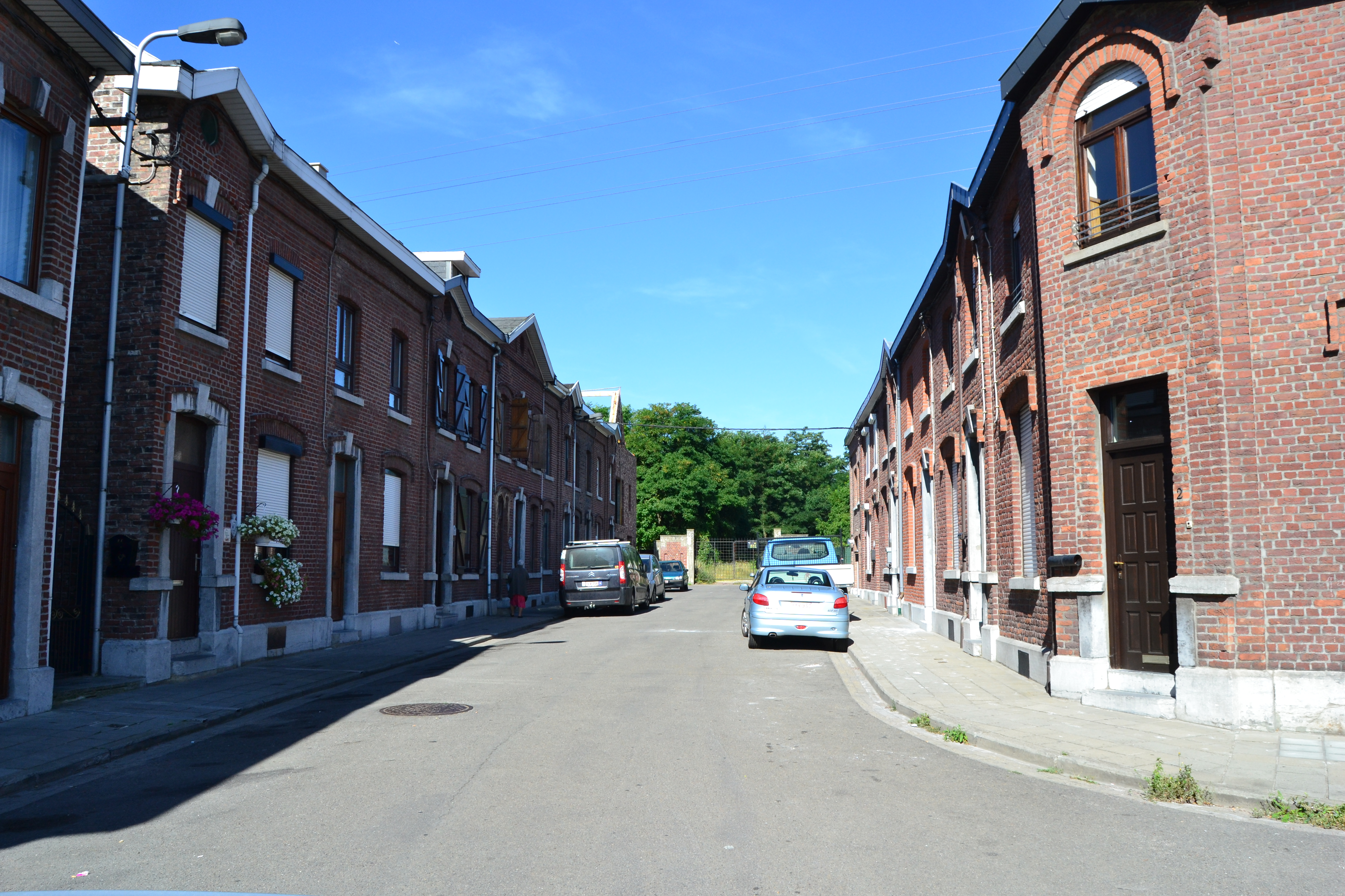 Ancient gate of the Esperance coal mine in Saint-Nicolas, Belgium